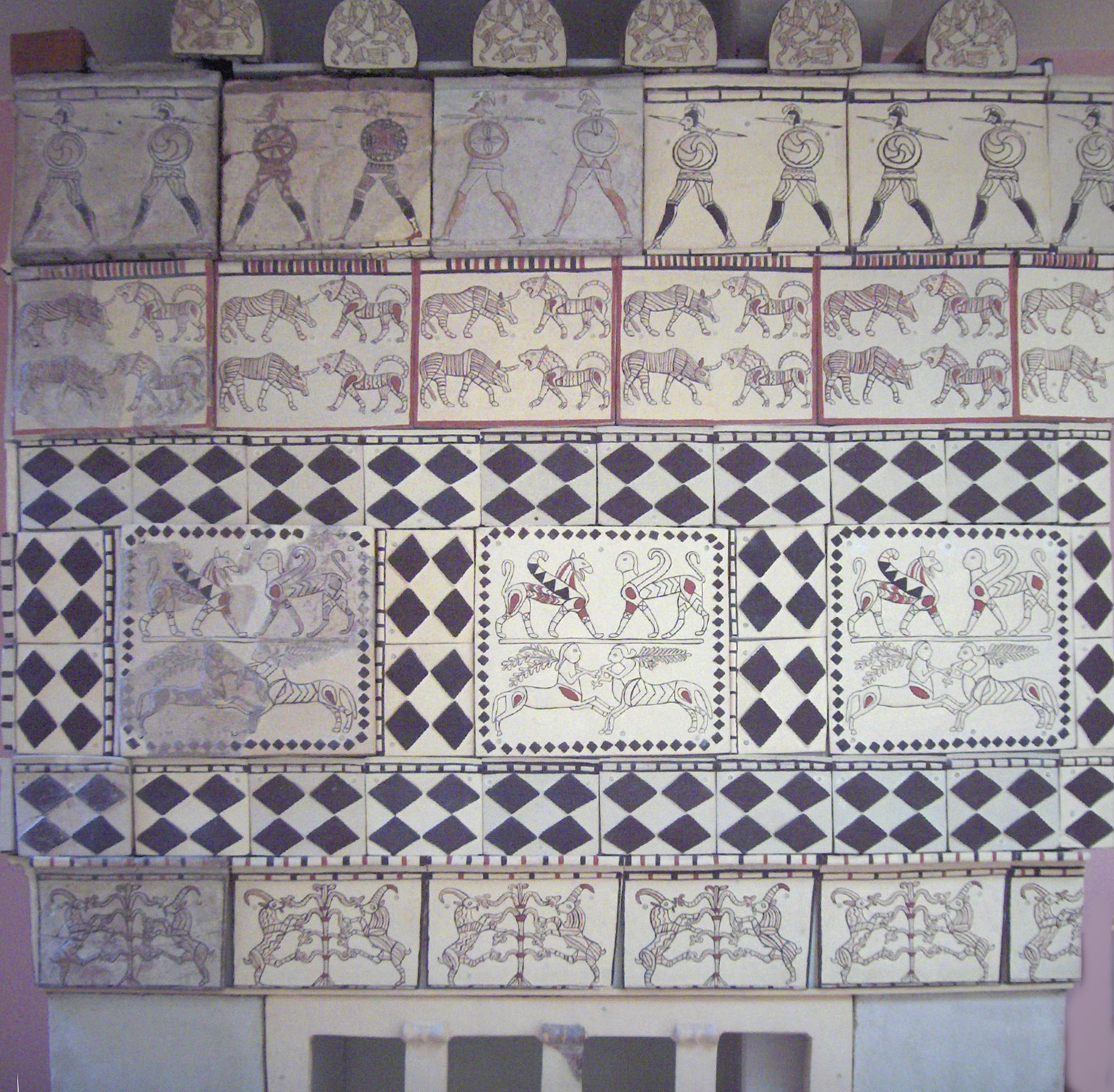 Reconstruction of a Phrygian building; Pararli,Turkey; 7th c. BC; Museum of Anatolian Civilizations, Ankara, Turkey